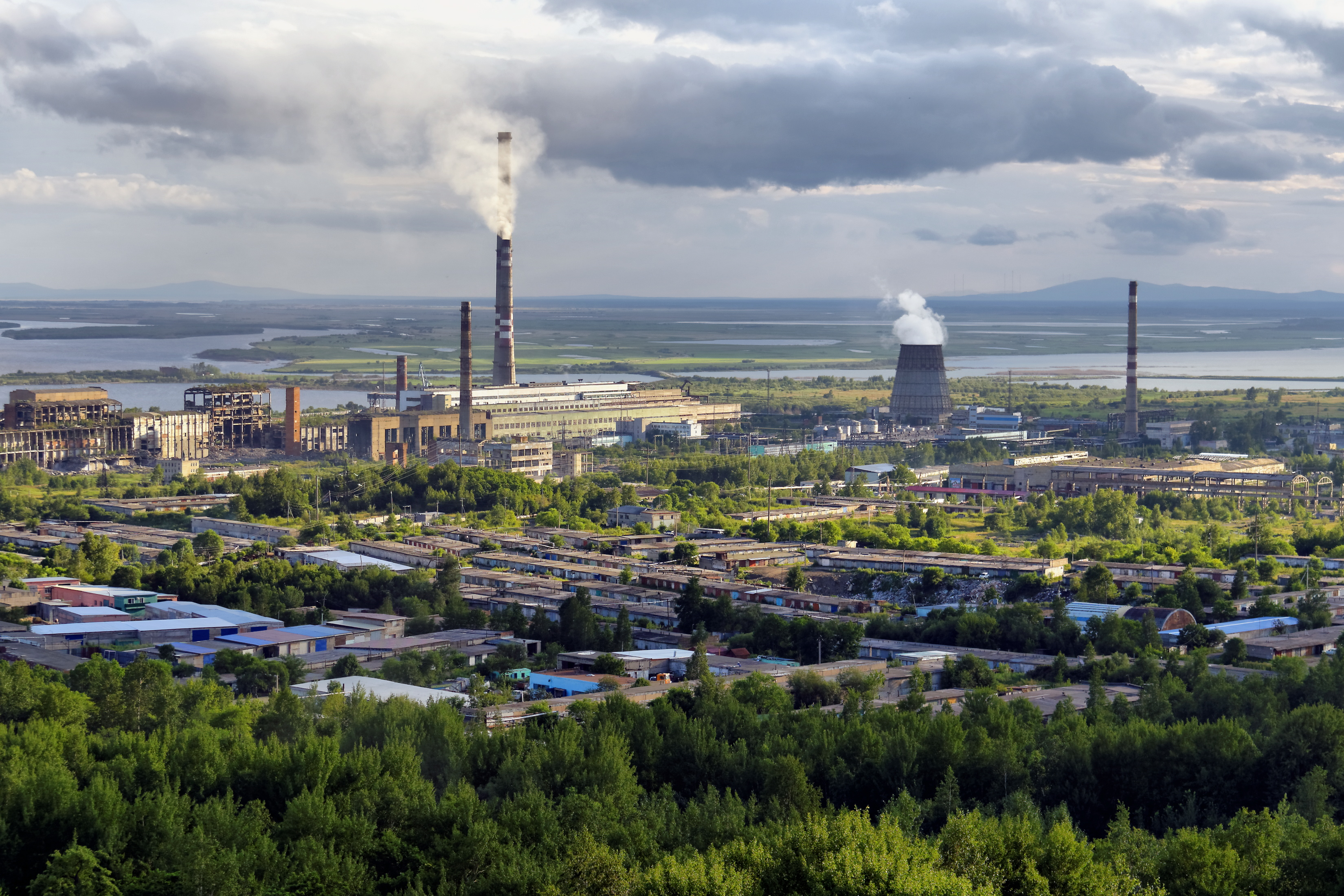 Amursk. Amursk combined heat and power plant